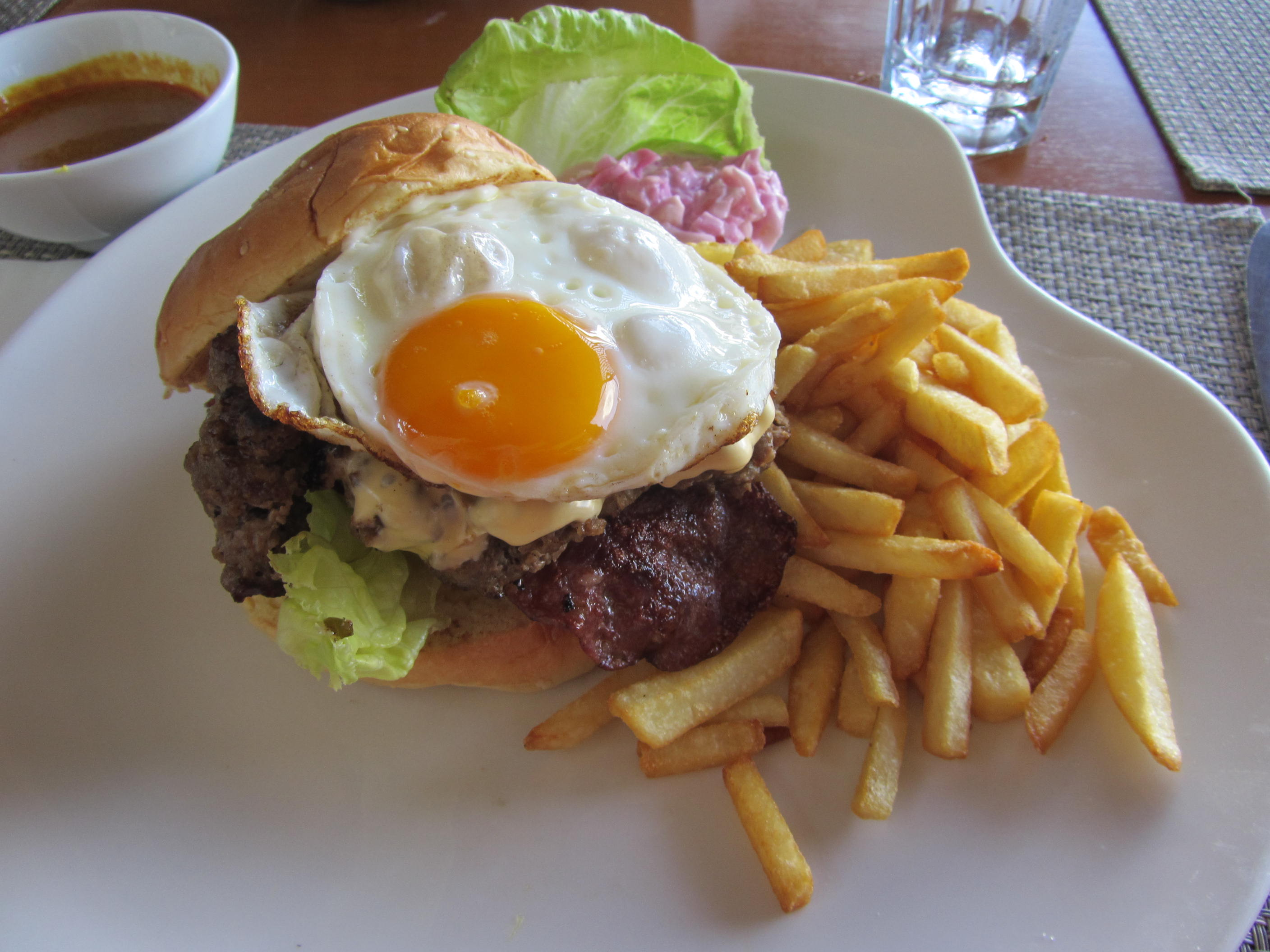 We headed to Sutera Harbour Golf and Country Club today for lunch. I felt like having bread with some meat, so I ordered a burger. One costs RM 40 (RM 20 for members). There was a choice between chicken and beef; I decided to go for beef. I was pleasantly surprised with the portion and the presentation of the burger. The top sesame seed bun came with a sunny side up fried egg. And below it was a big lump of yummy beef meat and a piece of bacon, which I presume to be beef bacon. At the bottom is a piece of cabbage. To top it off, there was some pink cabbage coleslaw and fries, which made me full after eating all. I give this a 80% and is a must try for all burger lovers!